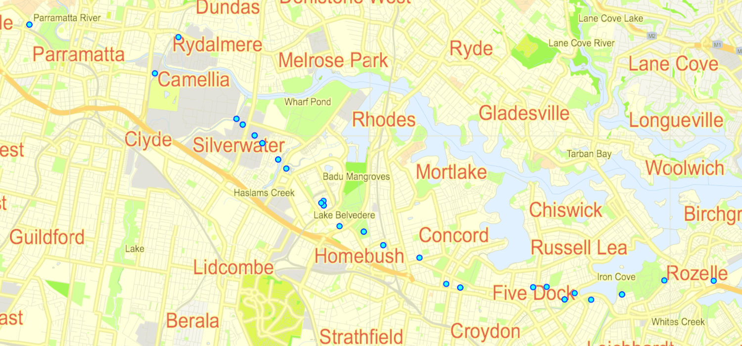 Sydney Metro West geotechnical survey locations made between 2018-03-23 and 2018-05-22